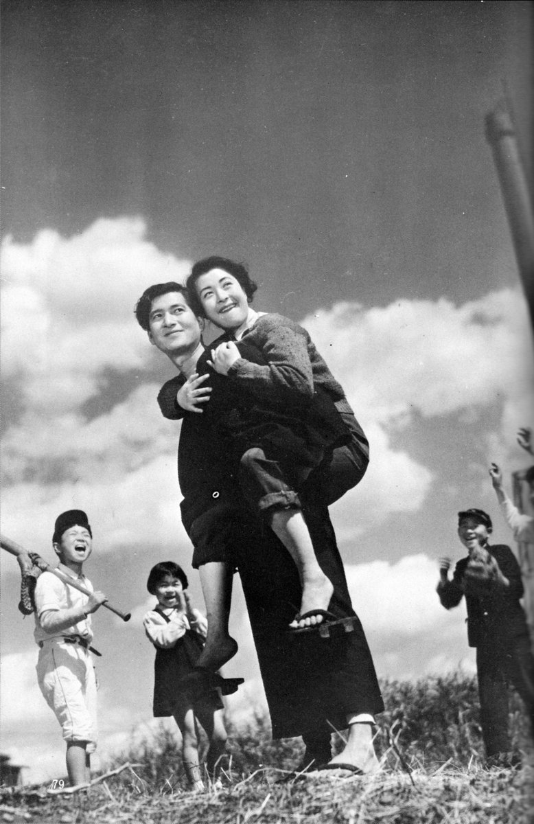 Shūji Sano and Yukiko Shimazaki in Mogura Yokochō (1953) directed by Hiroshi Shimizu